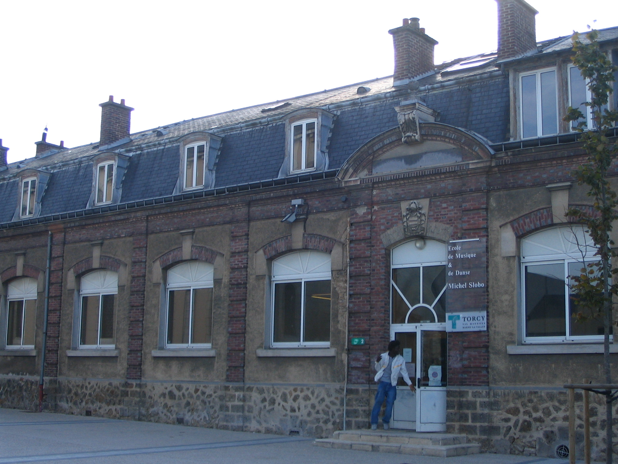 The music and dance school of Torcy, Seine-et-Marne, France.